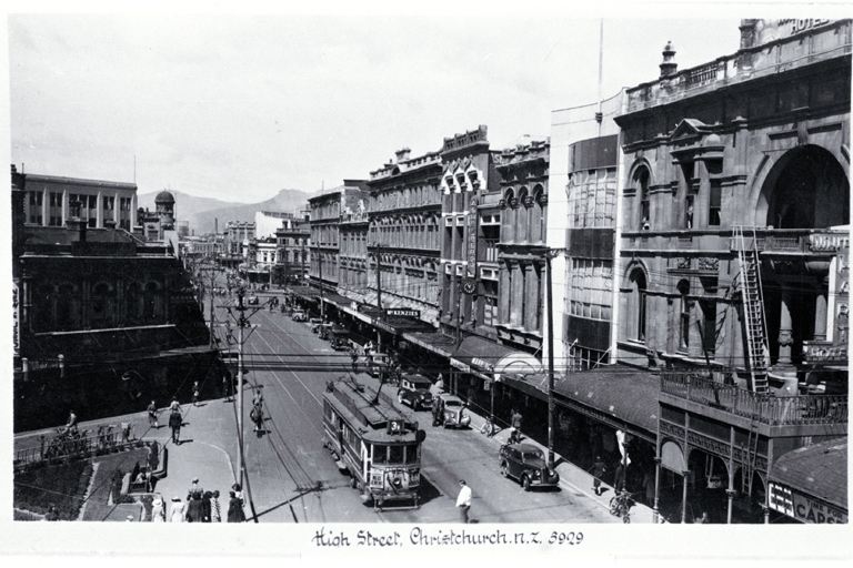 High Street, Christchurch : on the righthand side (background to foreground) are McKenzie & Willis, Ashby Bergh, Manning & Co., Begg's, Marsh's Silks and the White Hart Hotel.